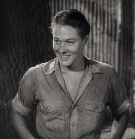 William Henry in Tarzan Escapes - trailer (cropped screenshot)